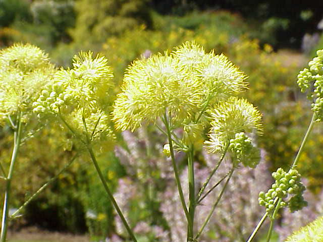 Species: Thalictrum flavum Family: Ranunculaceae Image No. 1